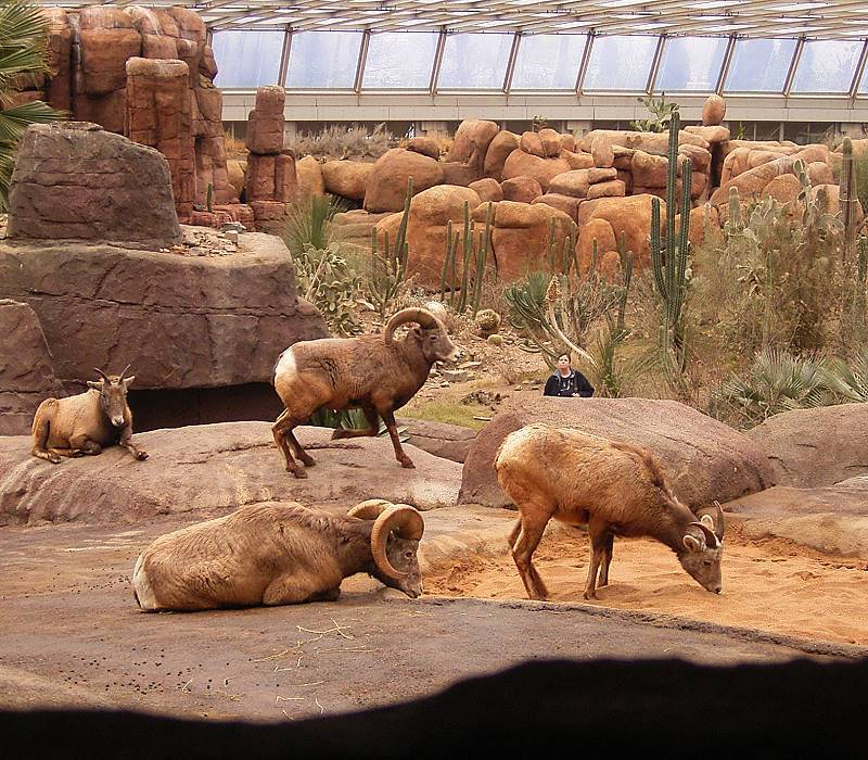 Ovis canadensis Bighorn Sheep - Burgers Zoo, NL